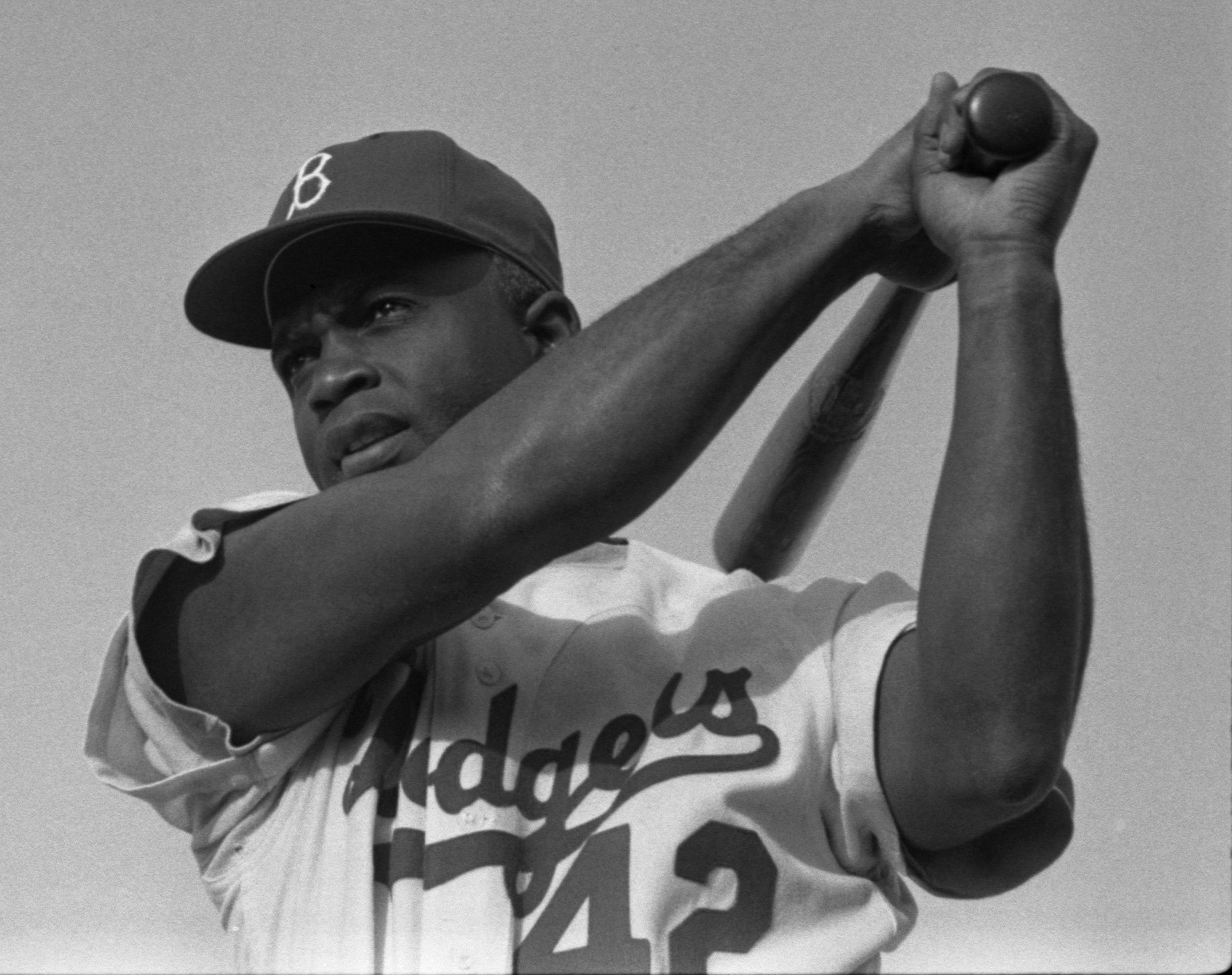 Jackie Robinson swinging a bat in Dodgers uniform, 1954.